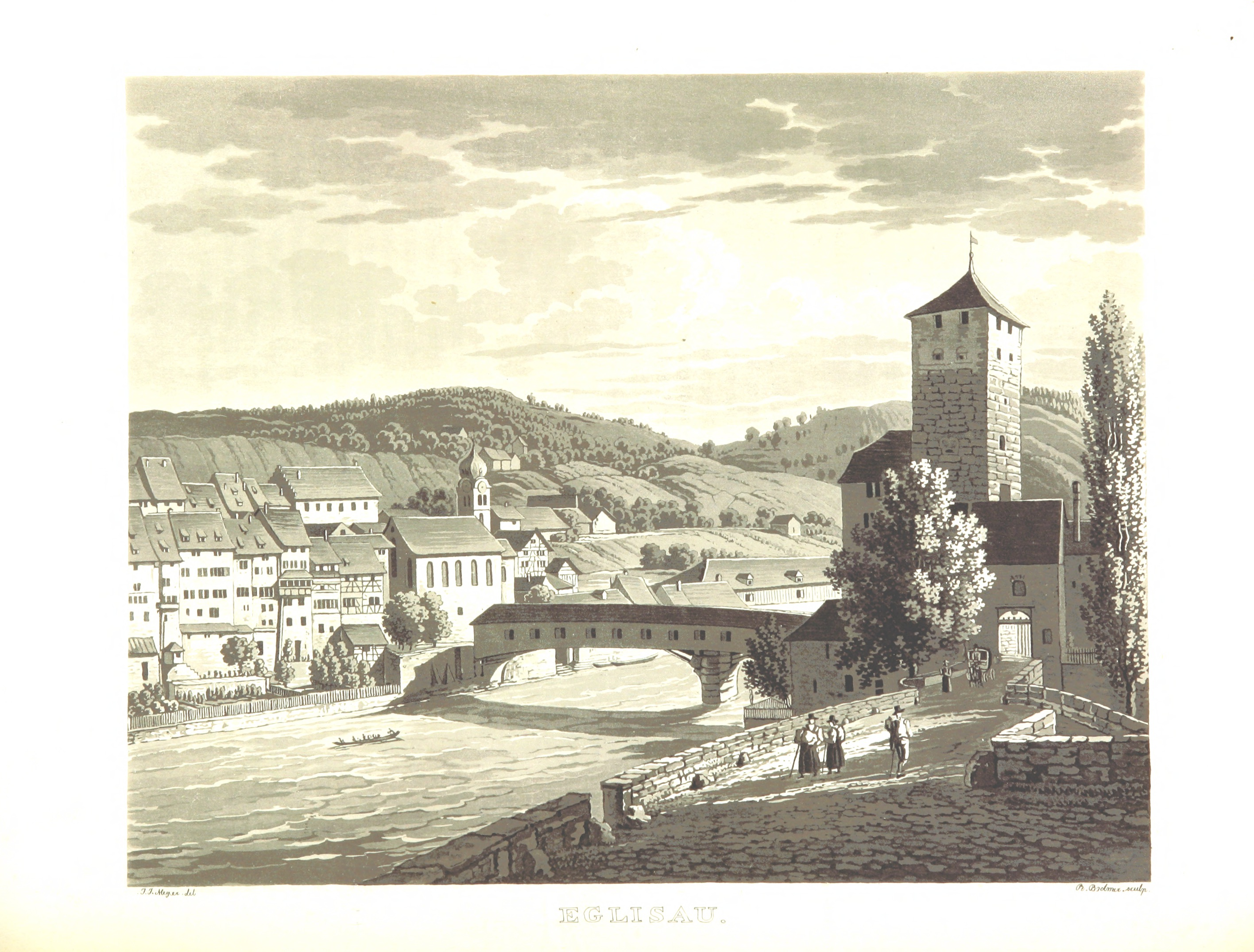 Image taken from: Title: "Die alten Chroniken oder Denkwürdigkeiten der Stadt und Landschaft Zürich, von den ältesten Zeiten bis 1820, neu bearbeitet von F. V" Author: VOGEL, Friedrich - of Zurich Shelfmark: "British Library HMNTS 9305.h.1." Page: 170 Place of Publishing: Zürich Date of Publishing: 1845 Issuance: monographic Identifier: 003809704 Explore: Find this item in the British Library catalogue, 'Explore'. Download the PDF for this book (volume: 0) Image found on book scan 170 (NB not necessarily a page number) Download the OCR-derived text for this volume: (plain text) or (json) Click here to see all the illustrations in this book and click here to browse other illustrations published in books in the same year. Order a higher quality version from here.